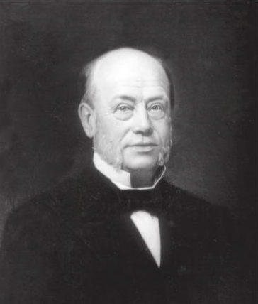 Wilhelm Gossler (1811-1895), banker and partner at Berenberg Bank